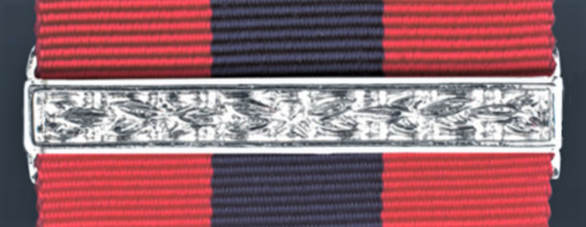 British Gallantry medal. Bar, or clasp worn on ribbon in the event of a second award.